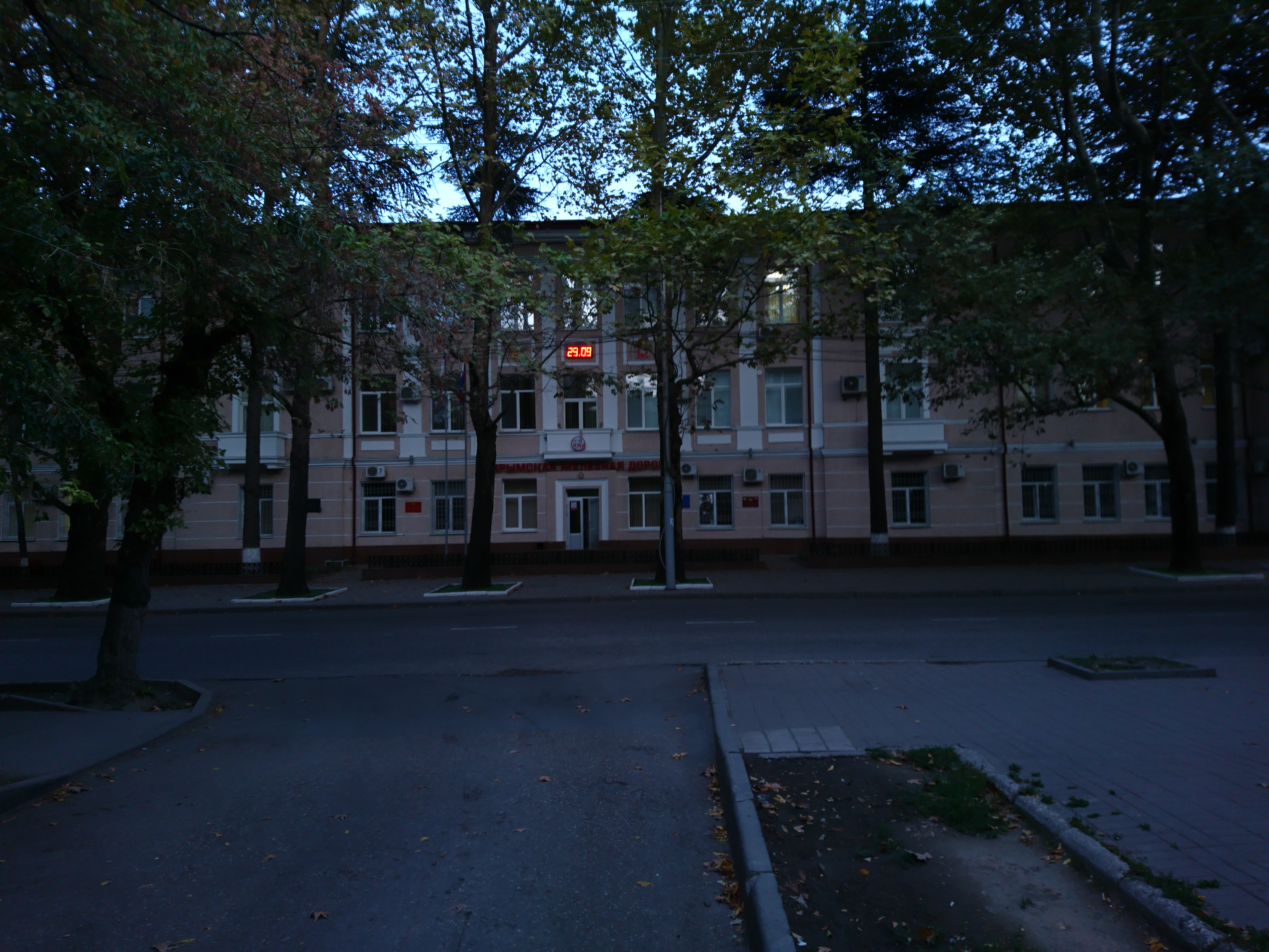 The building of the Crimean Railway in Simferopol